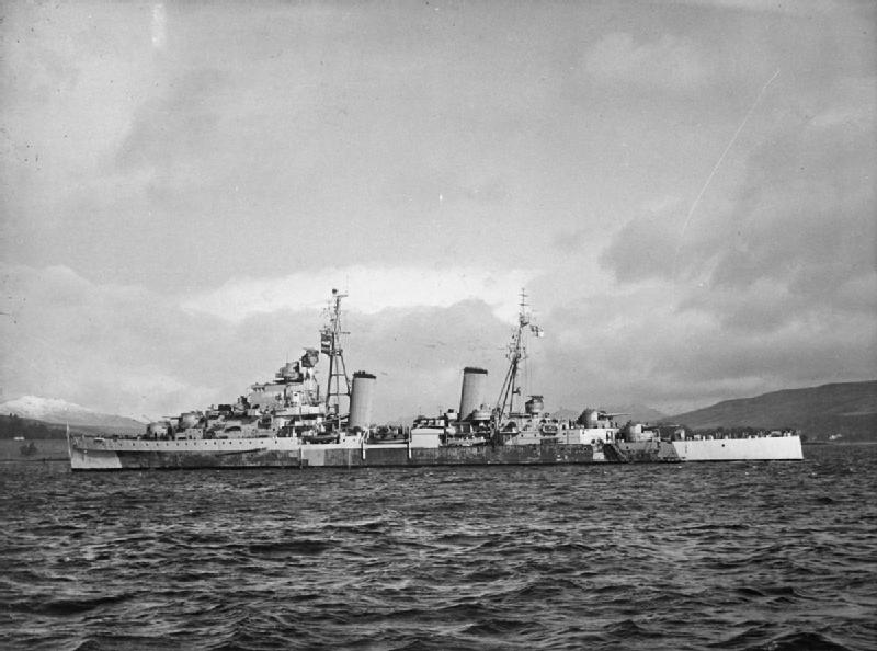 Photograph of British cruiser HMS Cleopatra anchored in the Clyde.